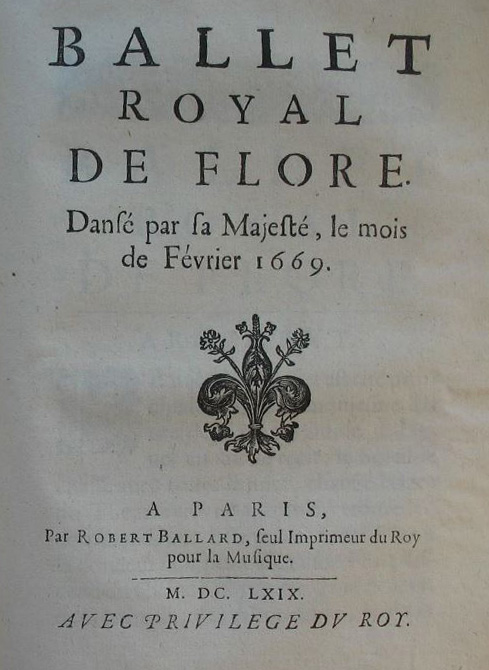 Title page of Bensérade's Ballet royal de Flore (Paris : Robert III Ballard, 1669, 4°).